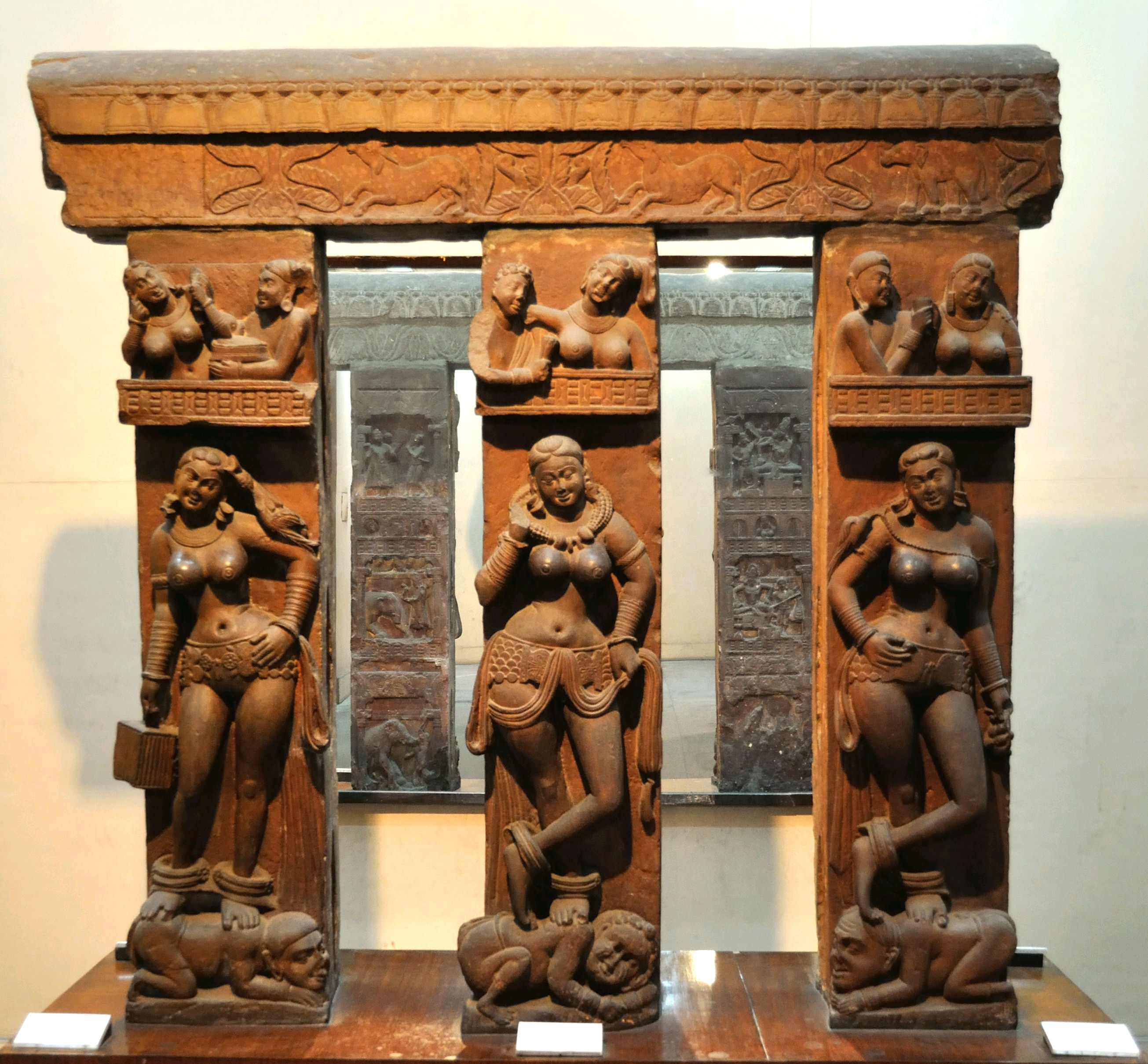 Bhutesvara Yakshis Mathura reliefs 2nd century CE front